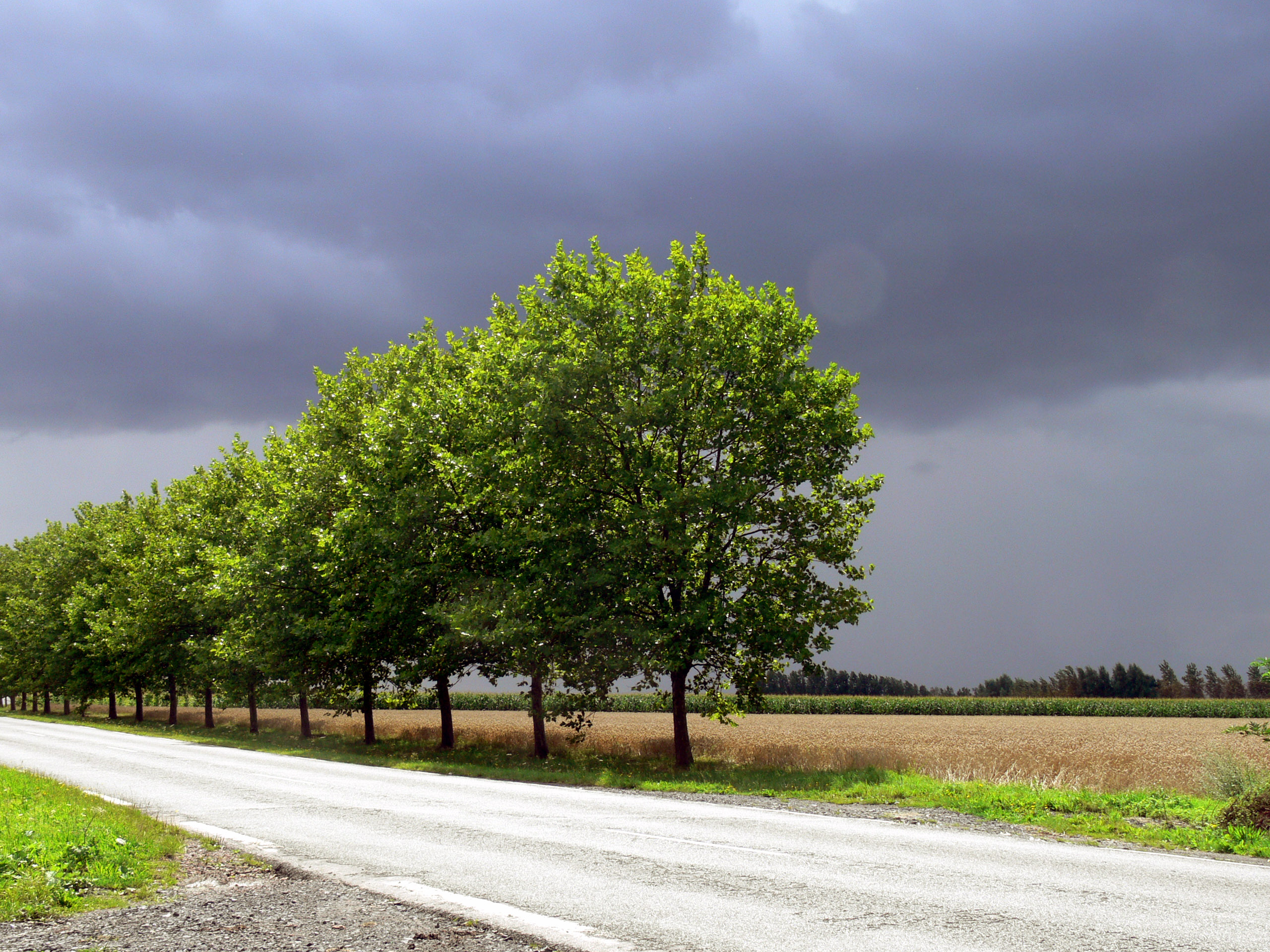 Alignment of platanus, near Phalempin's forest, north of France (near Lille)